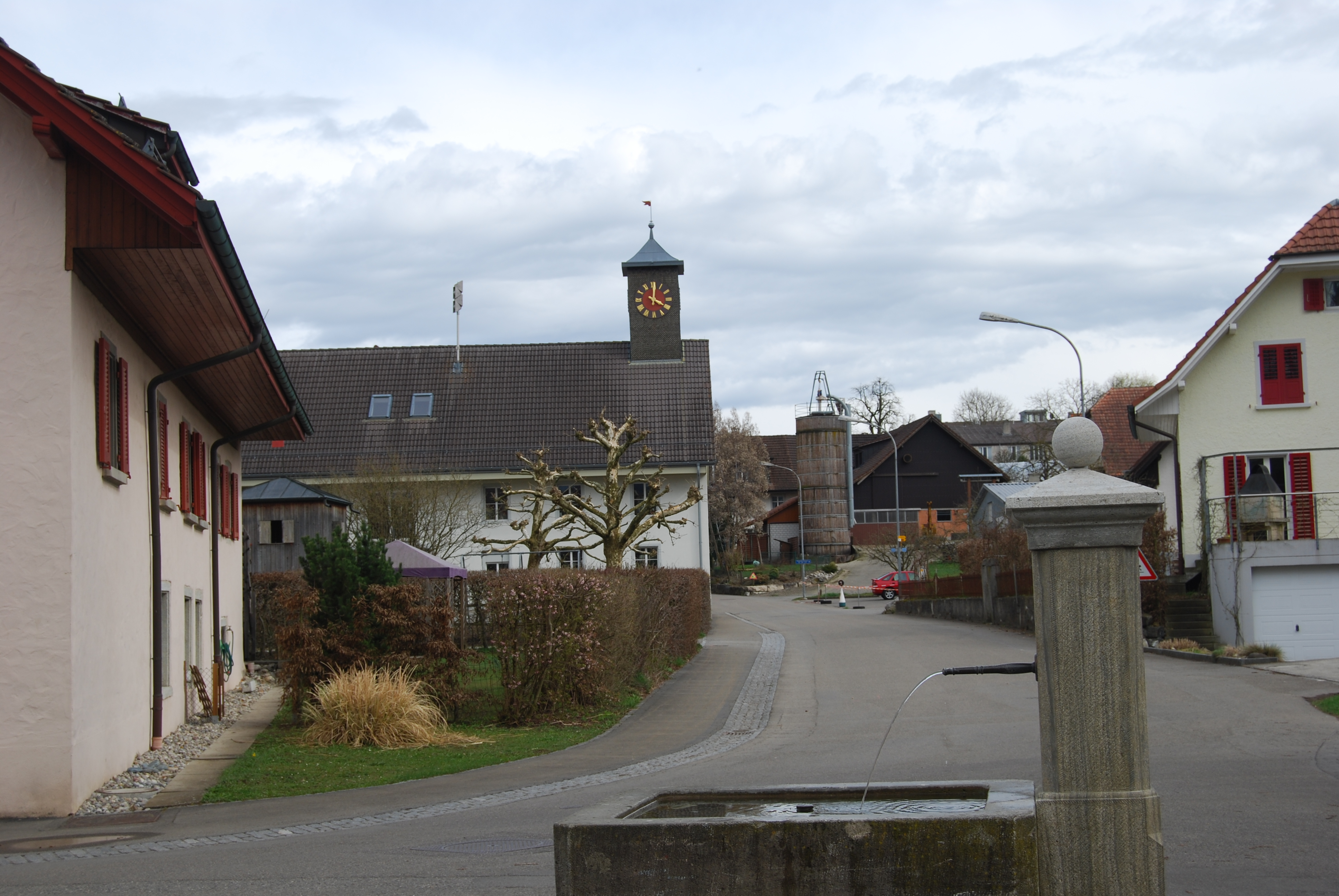 Scherz, canton of Aargau, SwitzerlandEsperanto: Scherz, Kantono Argovio, Svislando